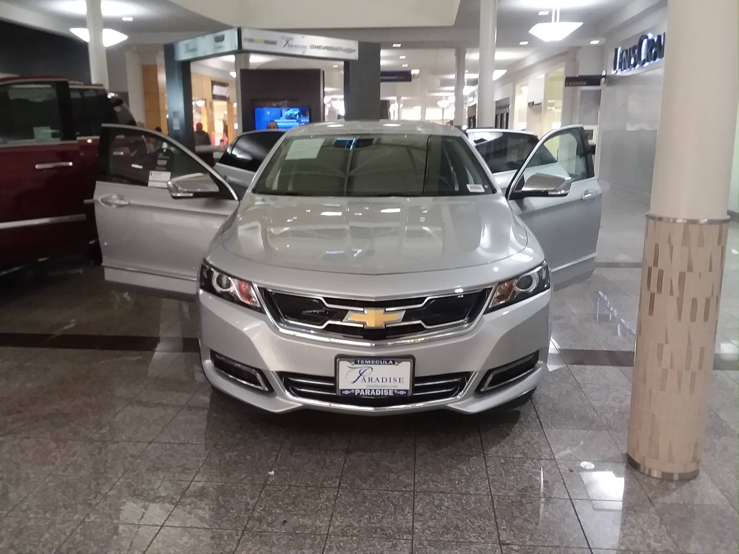 Chevrolet Impala 2018 4 Door Sedan front. Built in Detriot, Michigan, United States